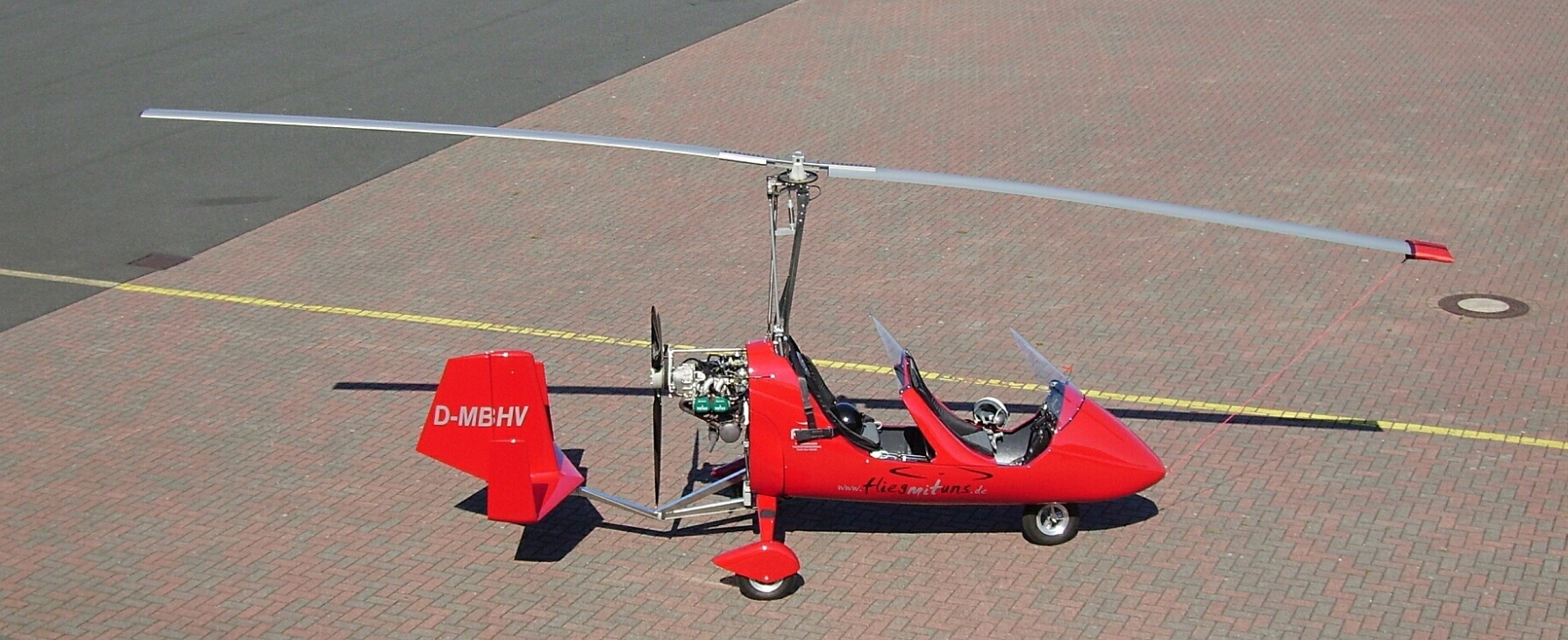 An Autogyro